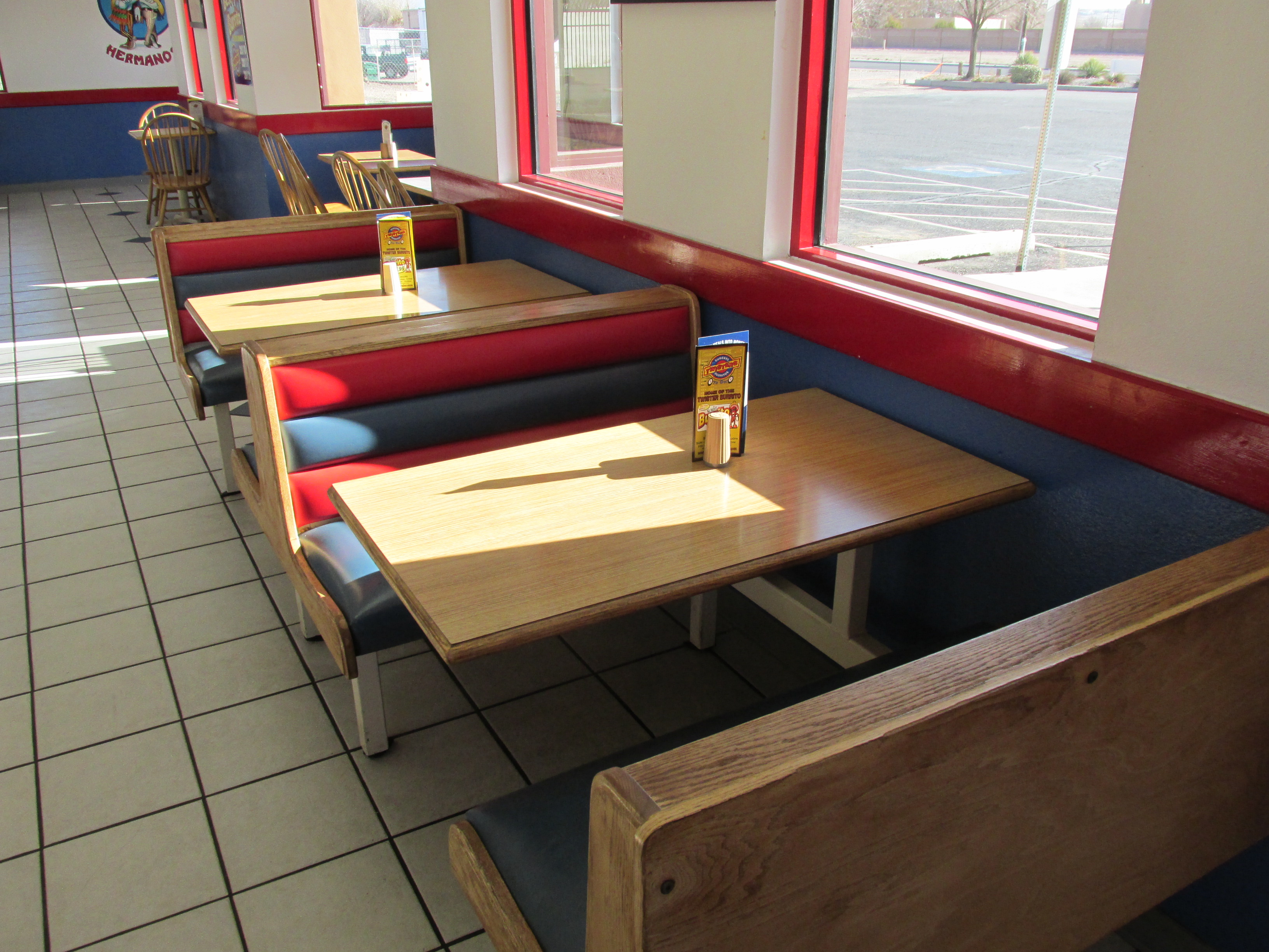 Inside Twisters, Isleta Blvd, South Valley New Mexico - Los Pollos Hermanos in "Breaking Bad"